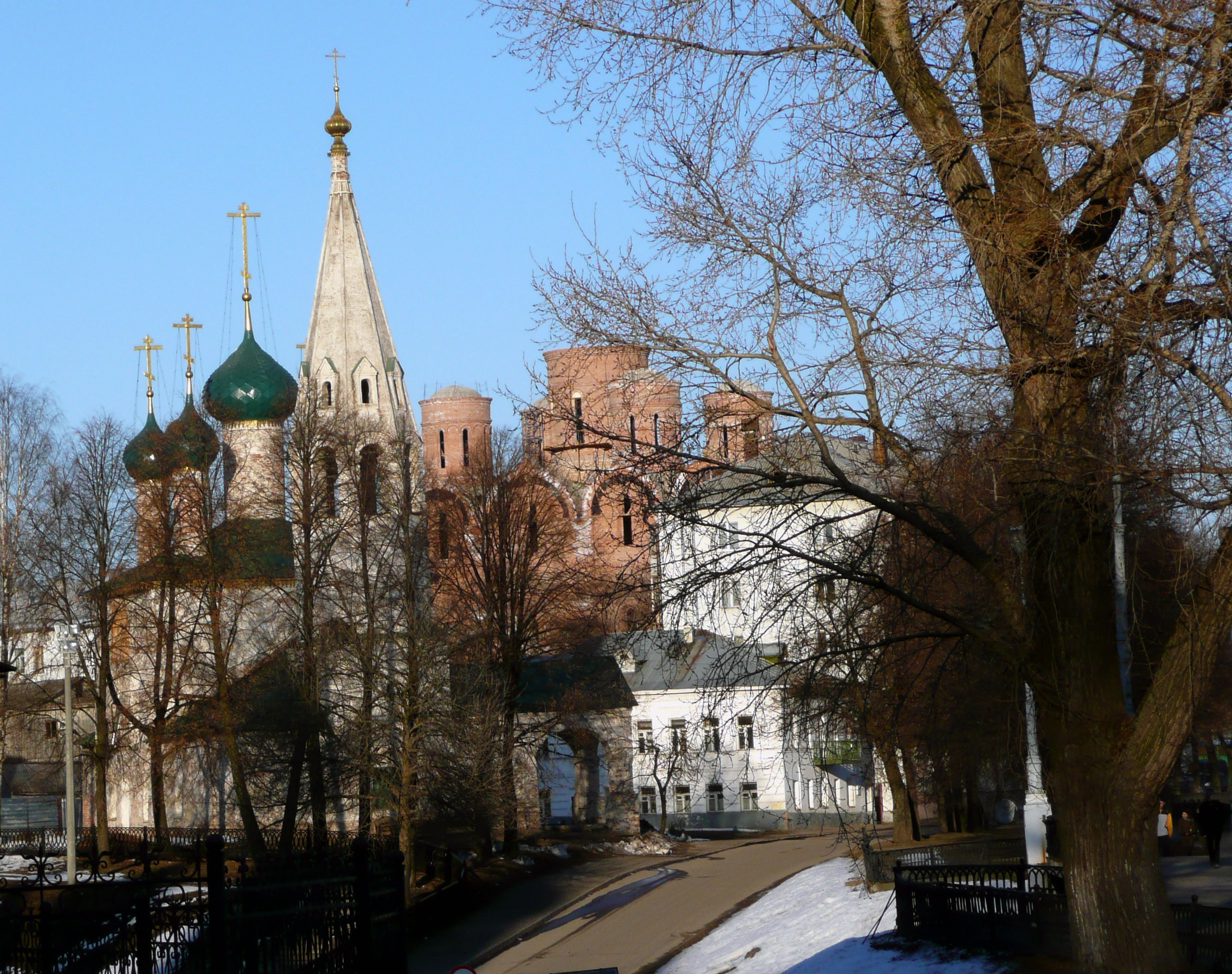 View on the Yaroslavl Kremlin from the Saviour Church